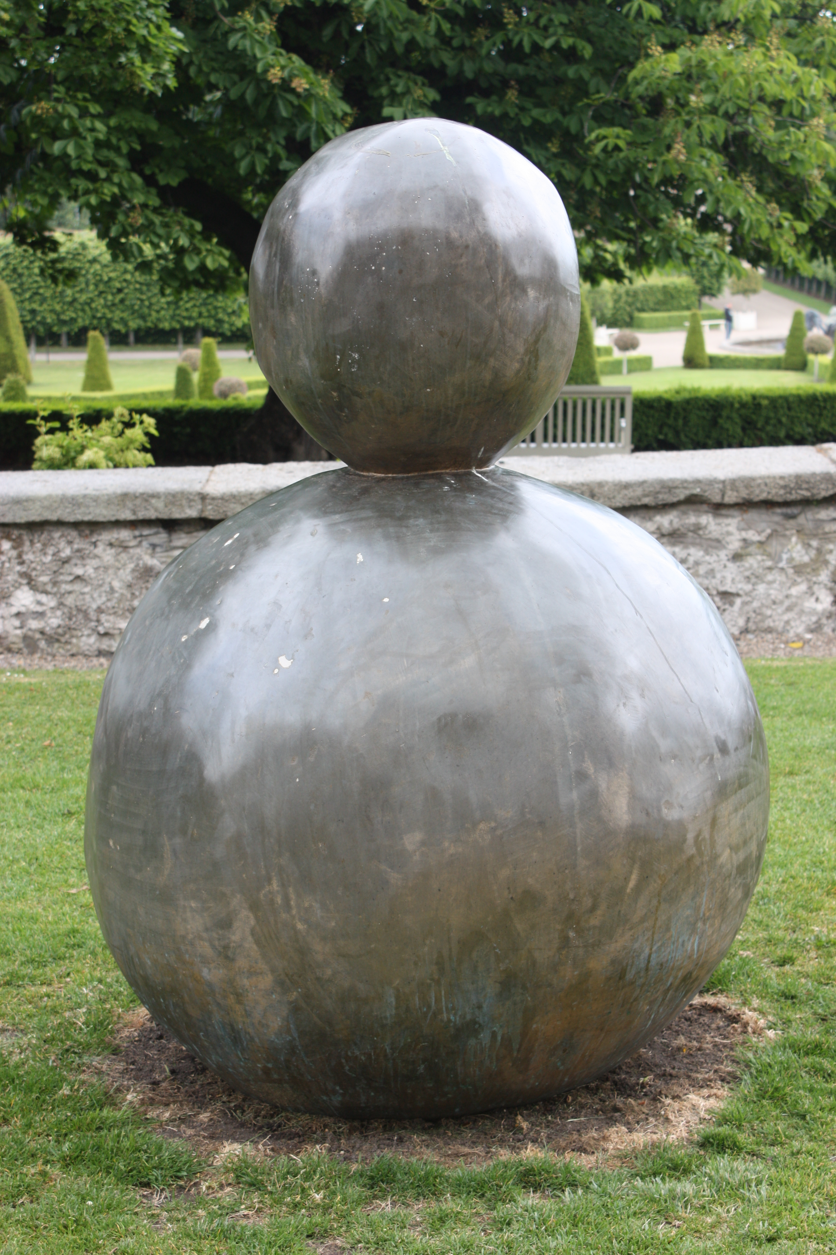 Back of Snowman (by Gary Hume, 2003), Irish Museum of Modern Art, Royal Hospital, Kilmainham, Dublin, Republic of Ireland, May 2011